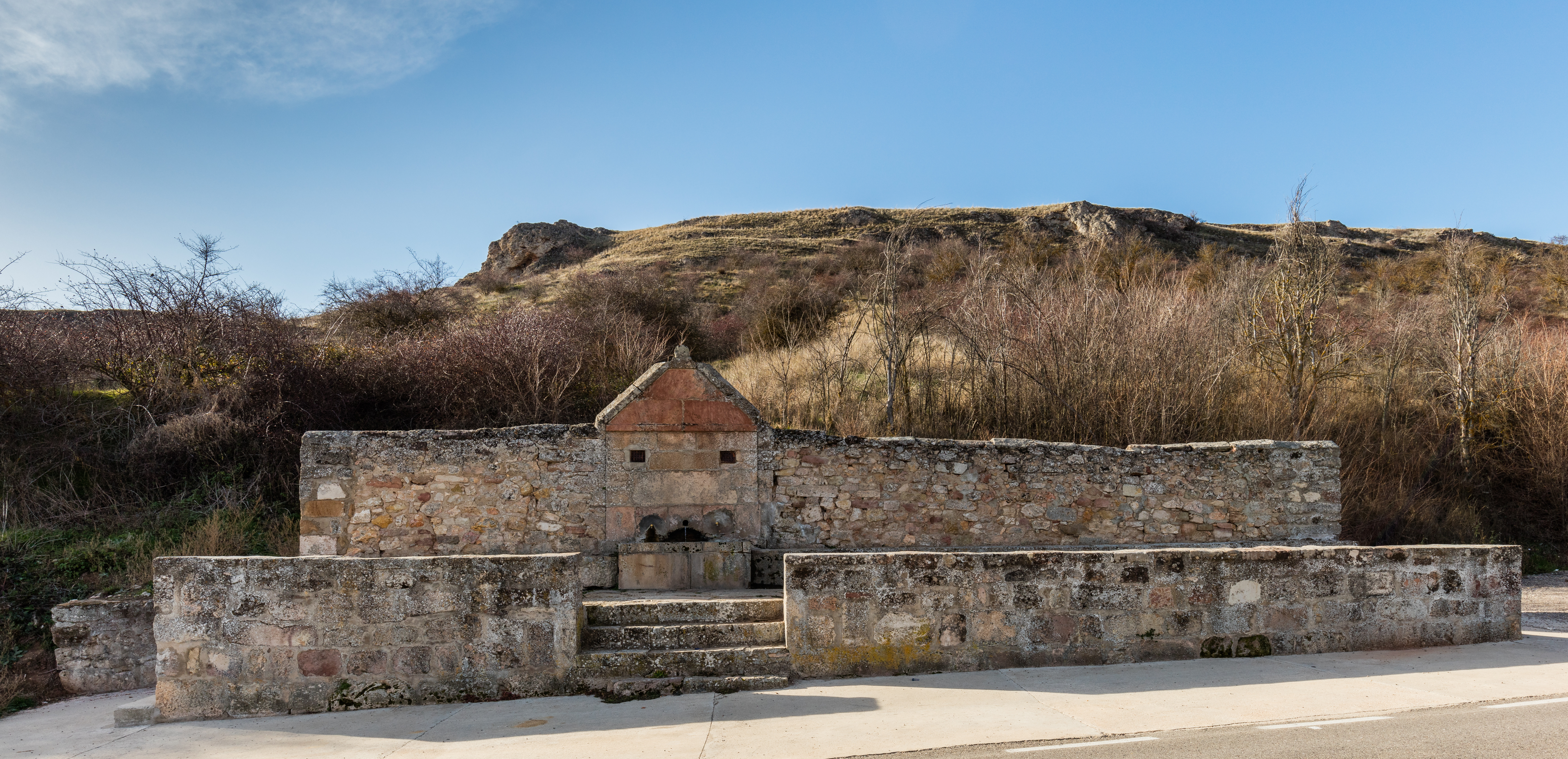 Fountain of la Canal, Medinaceli, Soria, Spain